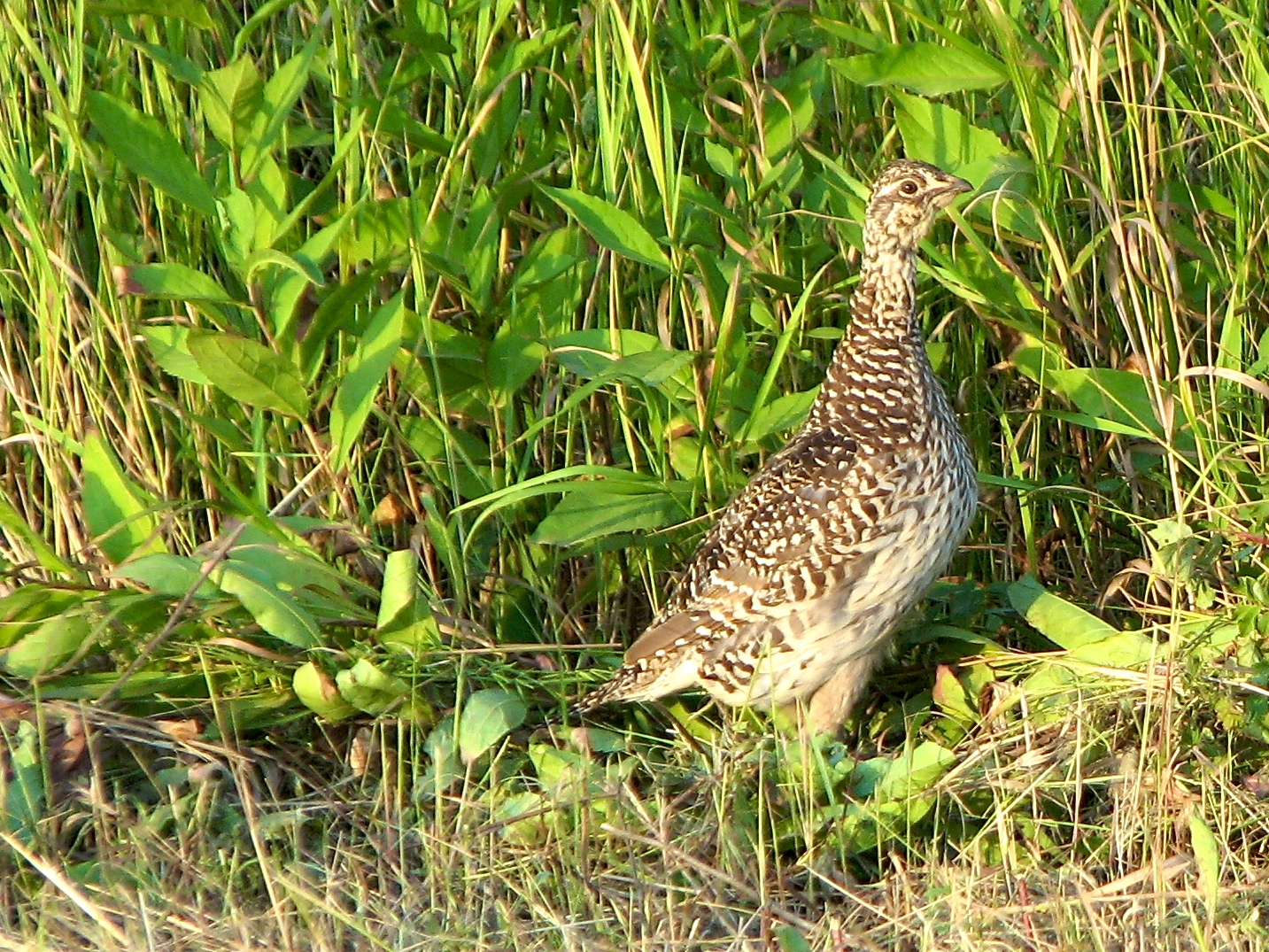 Sharp-tailed Grouse Tympanuchus phasianellus